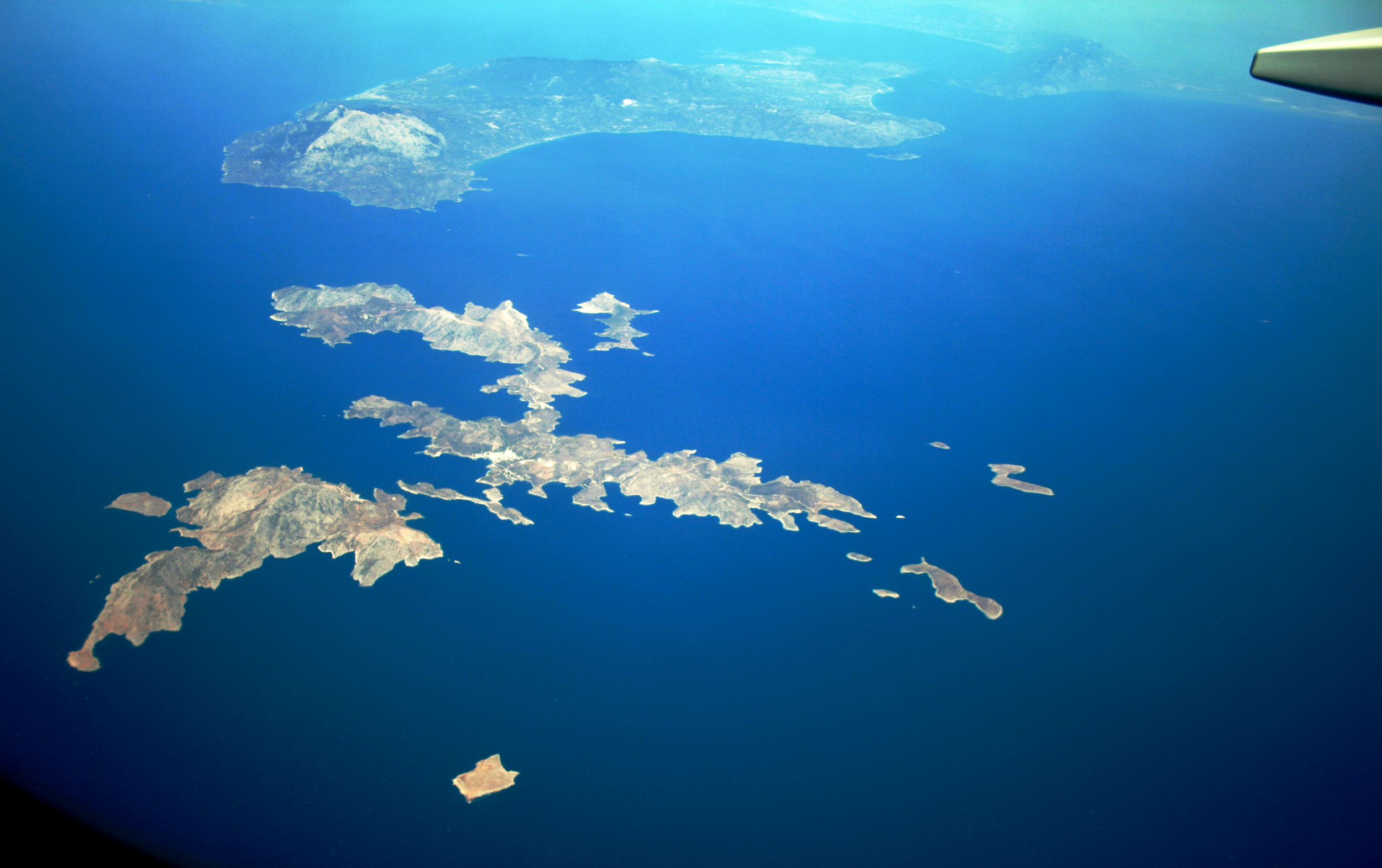 Greece island Fourni from air